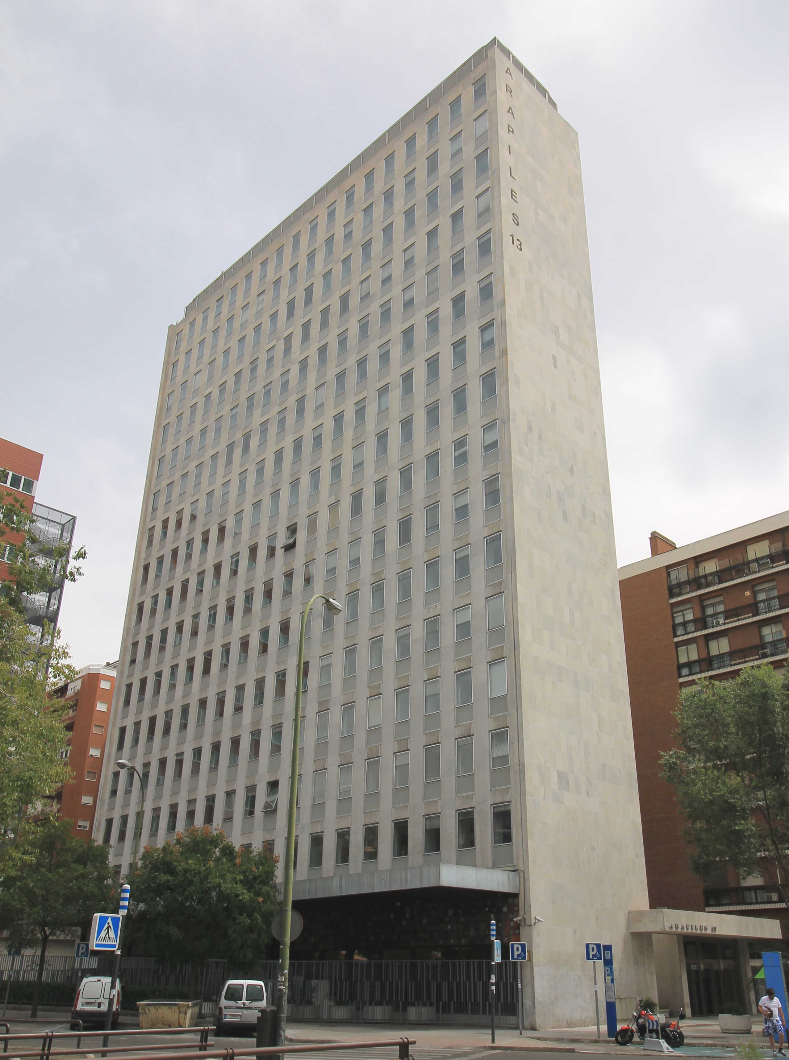 Building at 13th Calle de Arapiles (street) in Madrid (Spain). It houses Técnicas Reunidas' head offices.